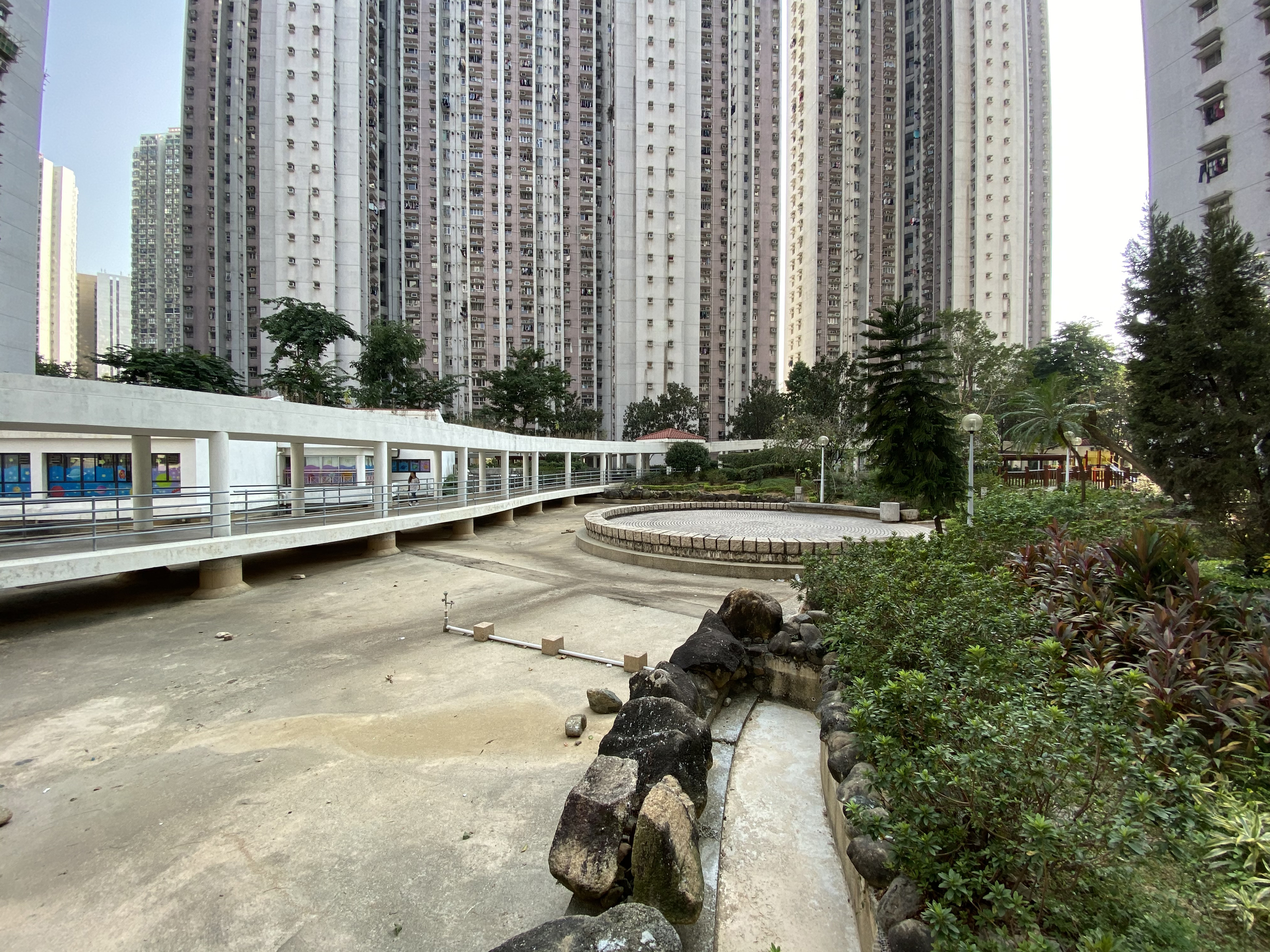 Siu Lun Court Pond without water